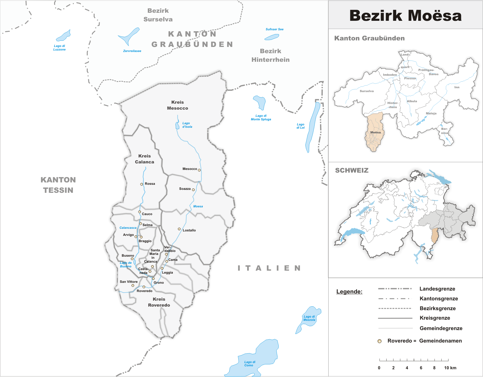 Municipalities in the district of Moësa